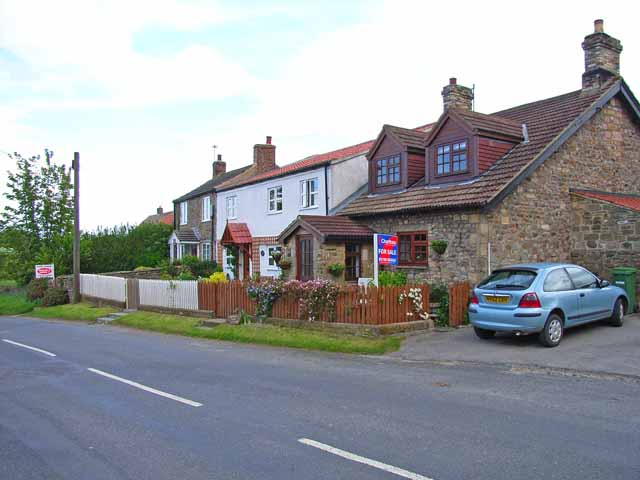 Chaytor Farmhouse and Cottages, Tunstall. In the attractive village of Tunstall. The farmhouse is the middle of the row of three.